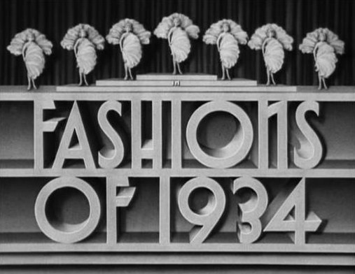 Main title frame from the public domain trailer for Warner Bros. 1934 film Fashions of 1934